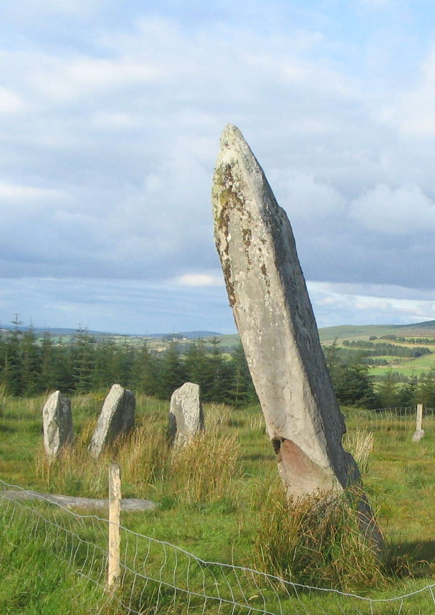 Knocknakilla megalithic complex located between Macroom and Millstreet, County Cork, Ireland. Photograph taken by Coil00 12th August 2006.